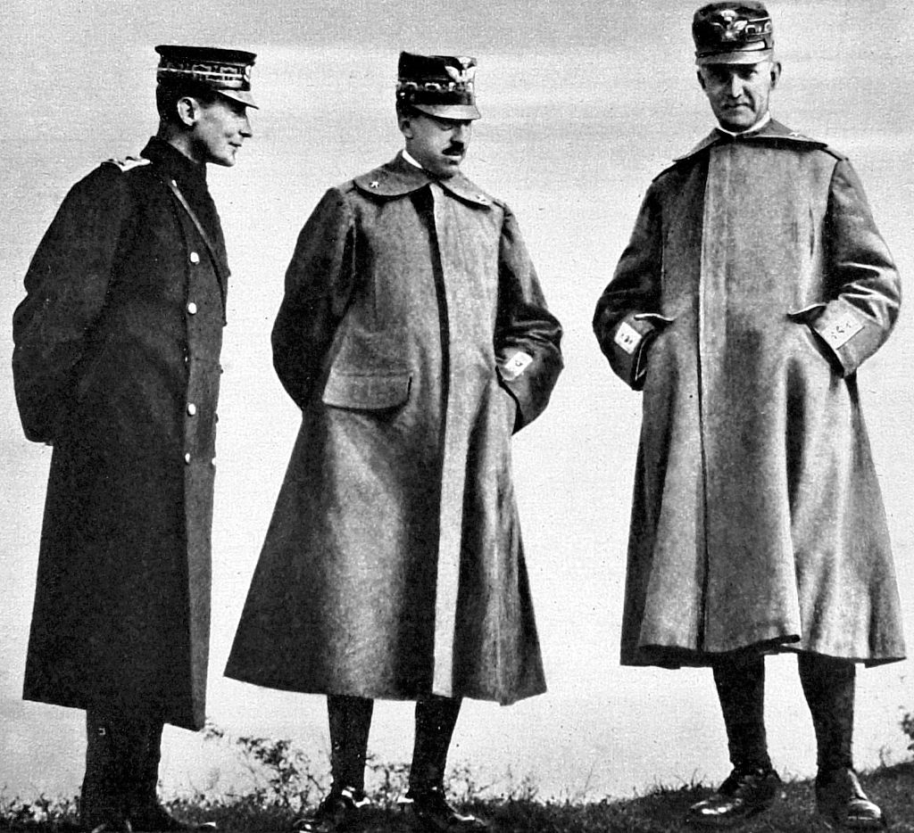 The Duke of Abruzzi, in the company of the Count of Turin and the Duke of Aosta Italy - 1915, World War I. On the Austrian front, the Duke of Abruzzi witnessing the bombardment of the town of Gorizia, in the company of the Count of Turin and the Duke of Aosta.